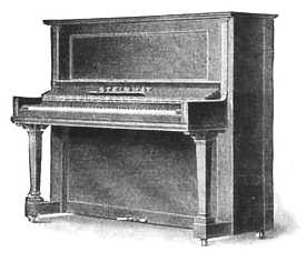 Sketch of the Steinway Vertegrand piano from a 1907 advert